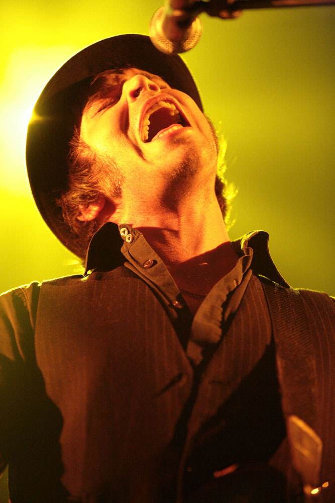 Gaz Coombes performs with Supergrass at the Astoria, London